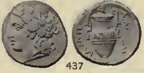 Greek coins and their parent cities (1902) Author: Ward, John, 1832-1912; Hill, George Francis, Sir, 1867-1948 Subject: Coins, Greek; Numismatics, Greek; Greece -- Description, geography; Italy -- Description and travel; Turkey -- Description and travel Publisher: London : Murray Possible copyright status: NOT_IN_COPYRIGHT Language: English Call number: AKB-0671 Digitizing sponsor: MSN Book contributor: Robarts - University of Toronto Collection: toronto Scanfactors: 7